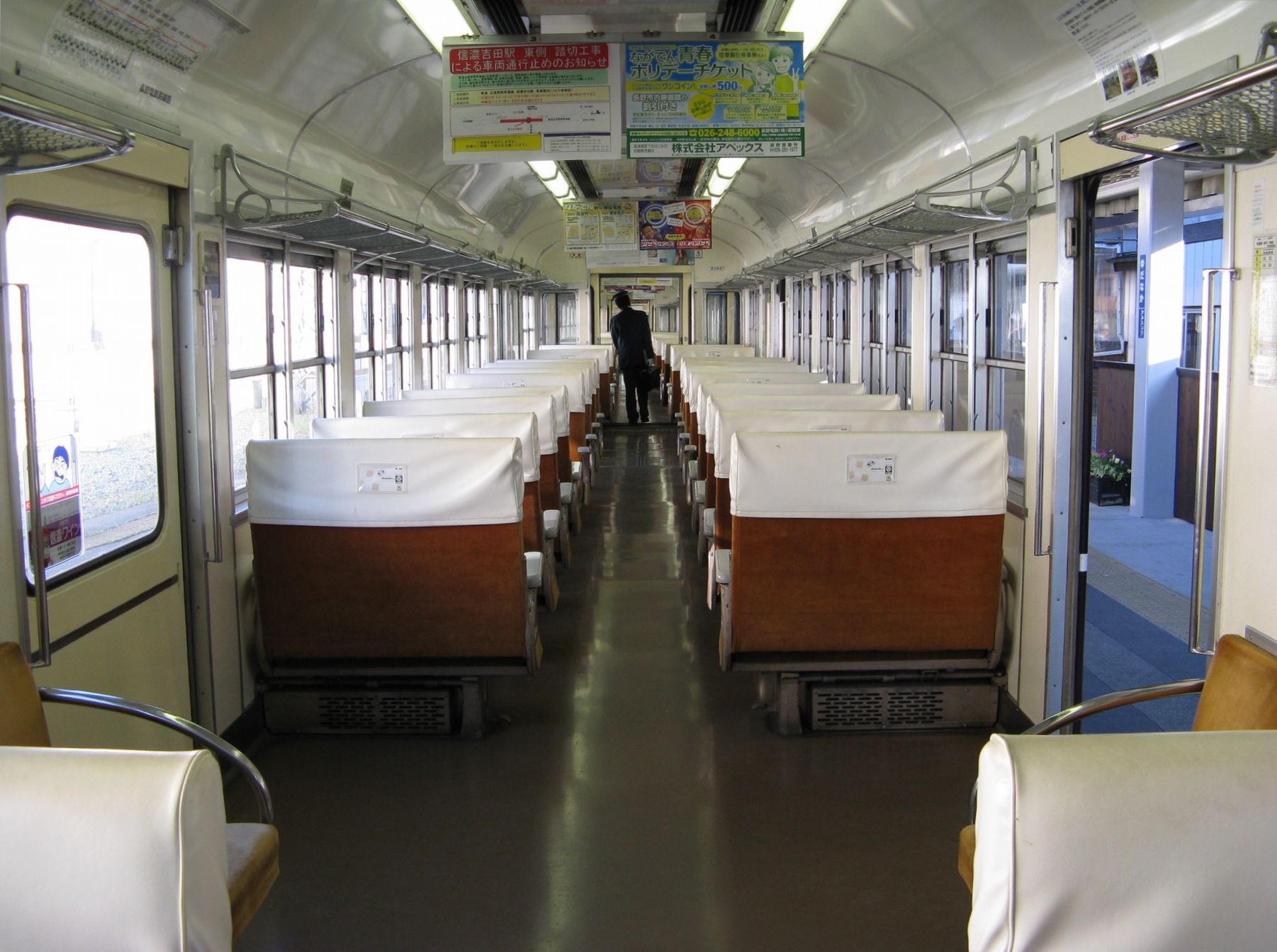 Interior of Nagano Electric Railway 2000 series EMU car MoHa2002 of set A